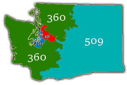 Area code 425 of Washington state.